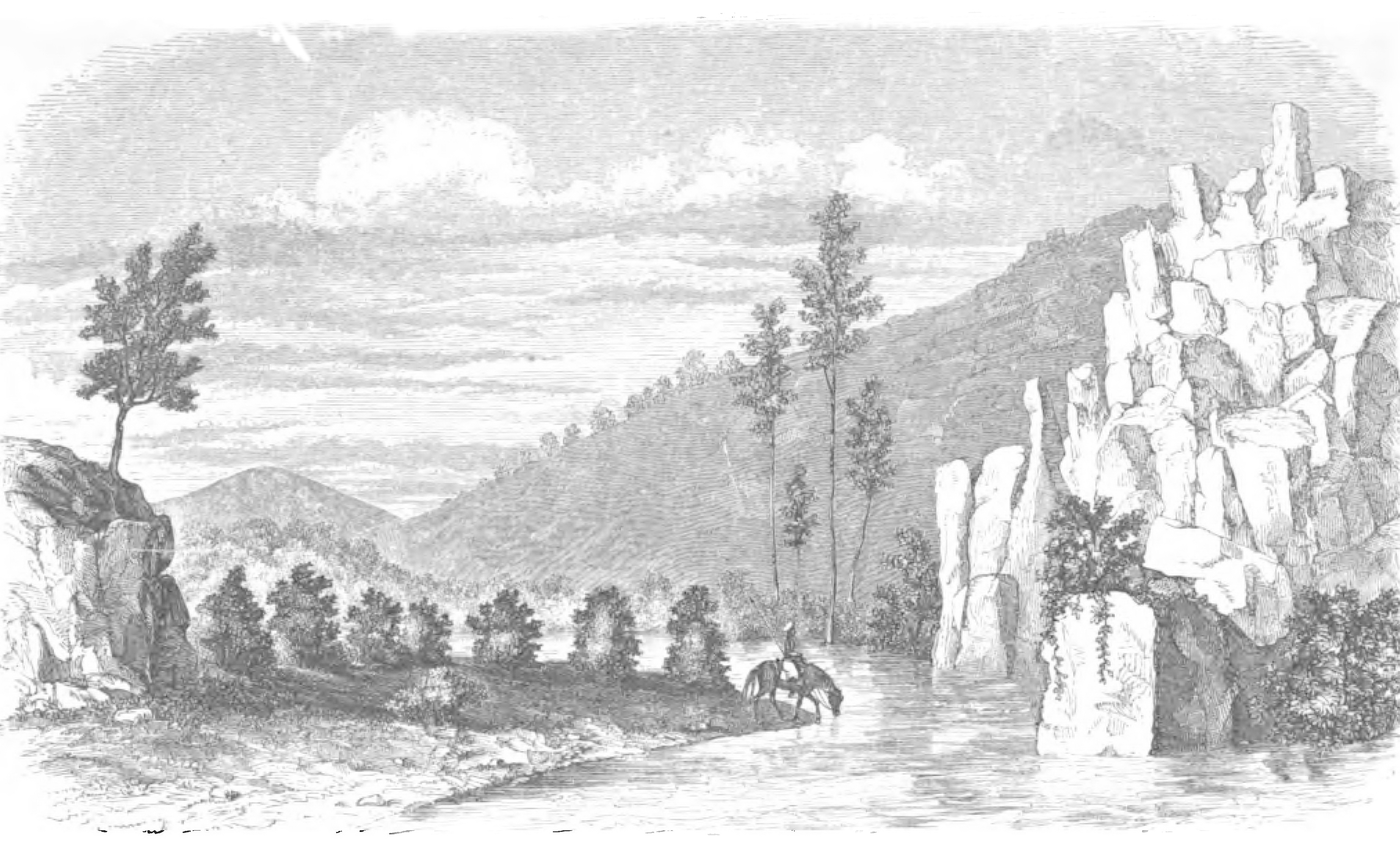 SOURCE OF THE JORDAN